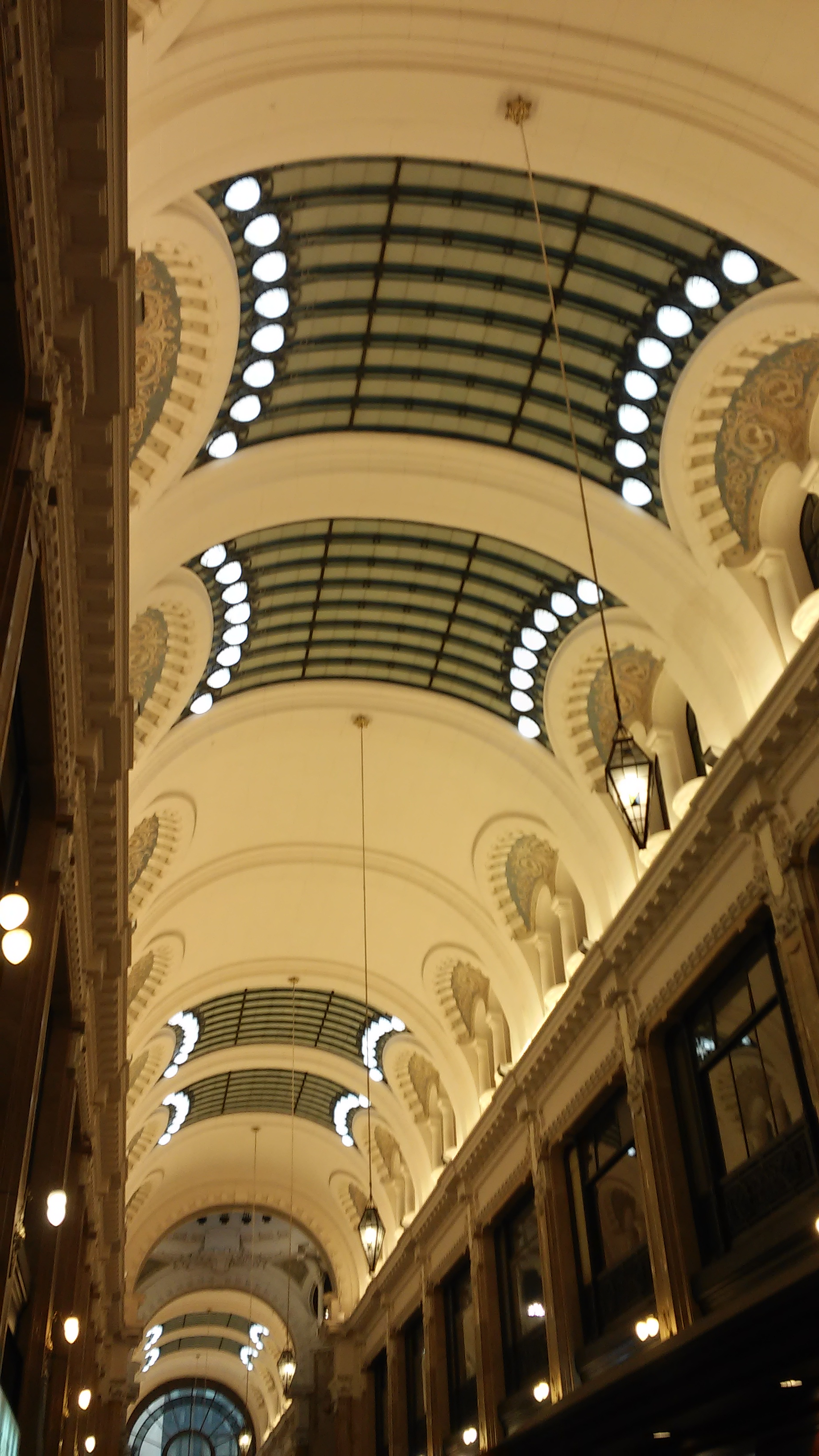 Galería General Güemes - Interior